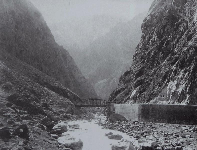 Darial Gorge, photo by Alexander Roinashvili